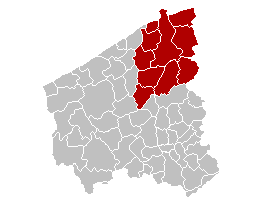 Location of Arrondissement Brugge in Belgium.